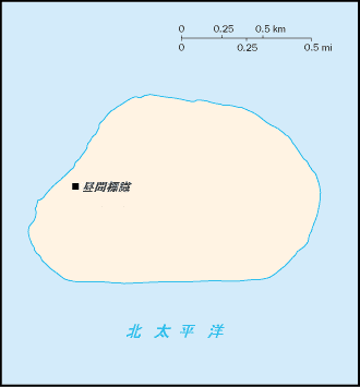 Baker Island map